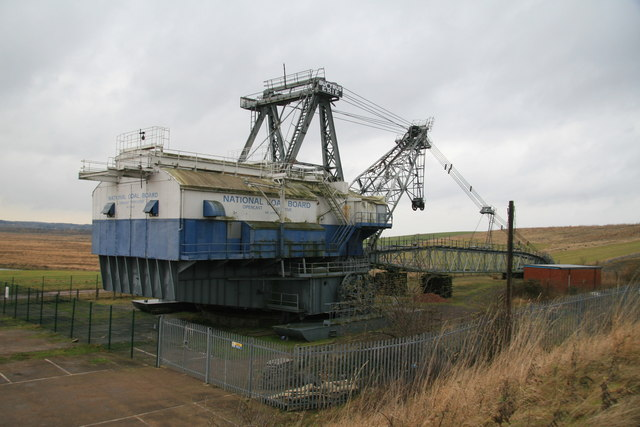 "Oddball", near Swillington A 1000 tons or so of preserved walking dragline at a former opencast site.